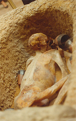 Natural mummy at the British Museum, room 64. Photo of the mummified remains of a Pre-dynastic Egyptian man (dated to 3400BC). British Museum Native nameBritish MuseumLocationLondonCoordinates51° 31′ 10″ N, 0° 07′ 37″ W Established1753Web page control : Q6373 VIAF: 134857252 ISNI: 0000 0001 2342 8817 ULAN: 500125180 LCCN: n79107735 NLA: 35022119 WorldCat